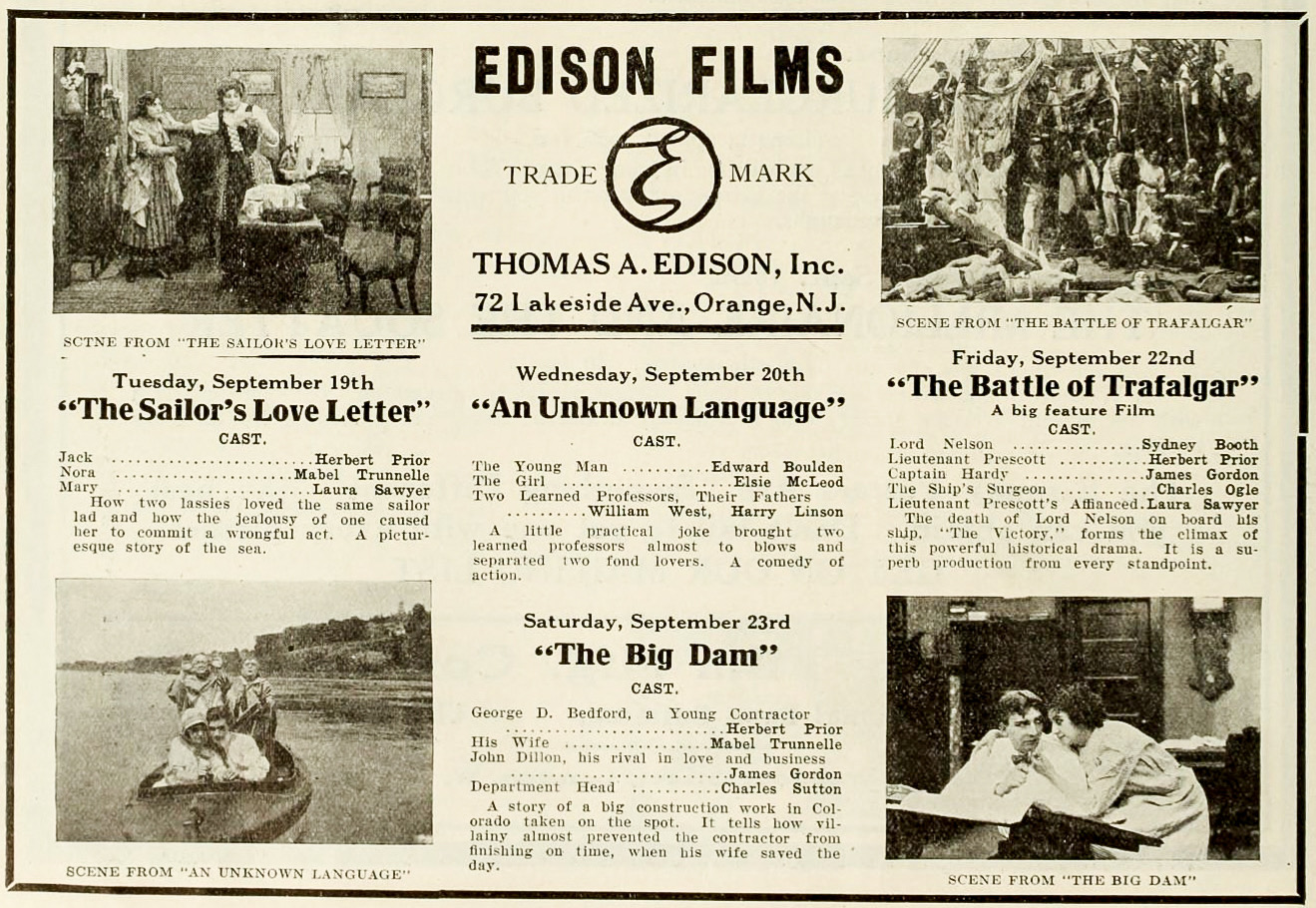 Advertisement for four Edison films released in September 1911; published in The Moving Picture World, September 16, 1911, p. 802; films with respective stills and cast listings include The Sailor's Love Letter, An Unknown Language, The Battle of Trafalgar, and The Big Dam.